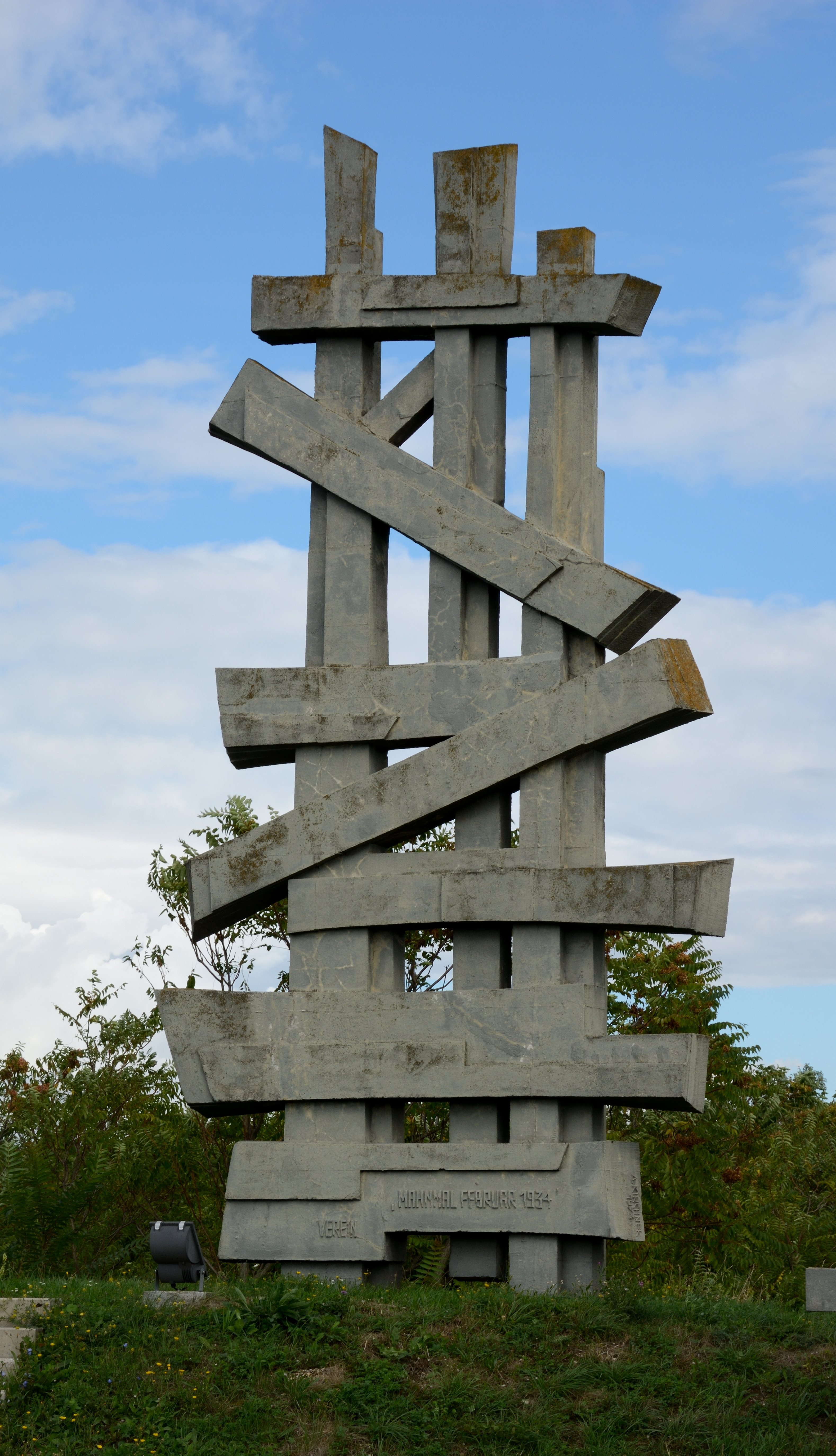 Memorial of former penal camp Wöllersdorf, Lower Austria (detail)